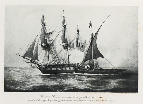 Gaspard Vence, french privateer under American flag